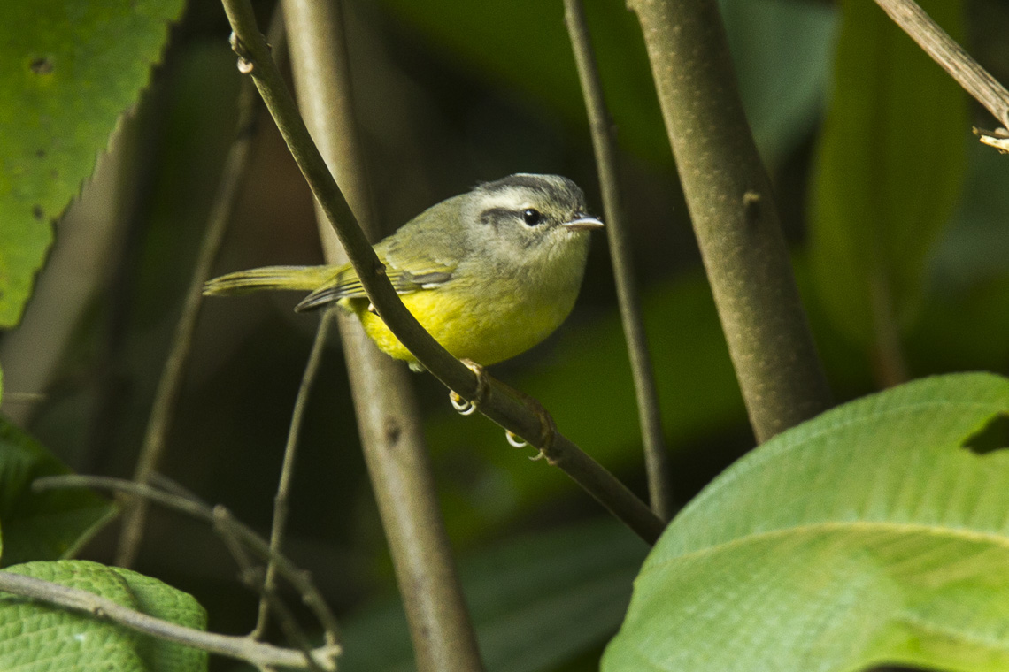 Three-banded Warbler (Basileuterus trifasciatus), south Ecuador